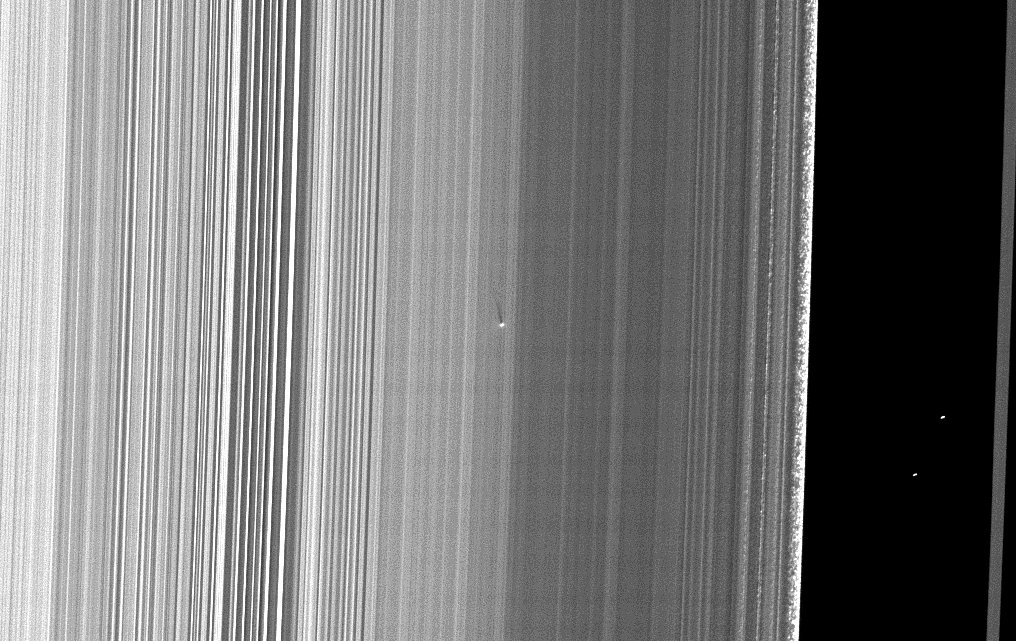 The Cassini spacecraft captured this image of a small object in the outer portion of Saturn's B ring casting a shadow on the rings as Saturn approaches its August 2009 equinox.